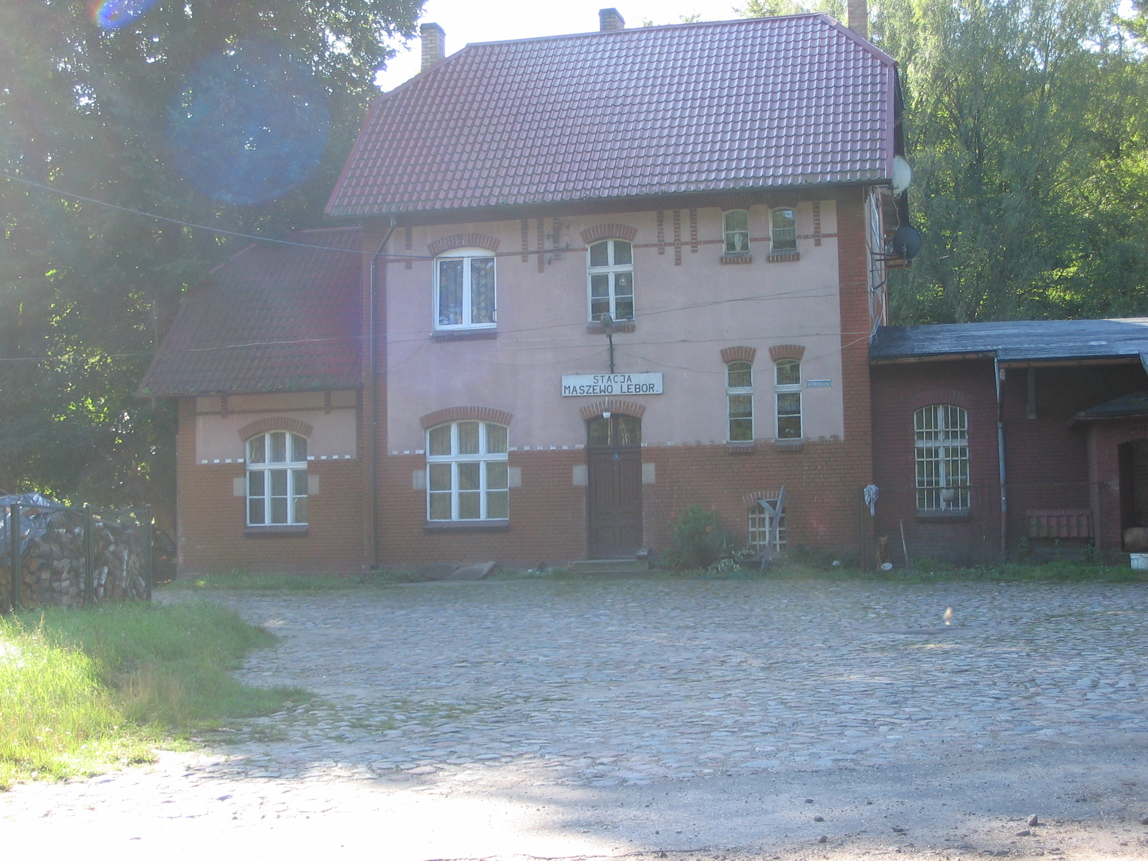 Maszewo Lęborskie train station viewed from road